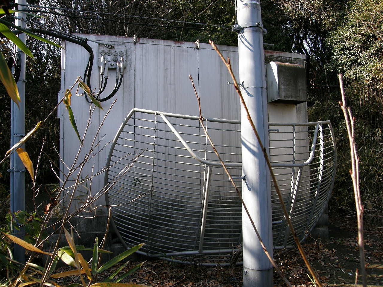 tank-yama-syounen-A